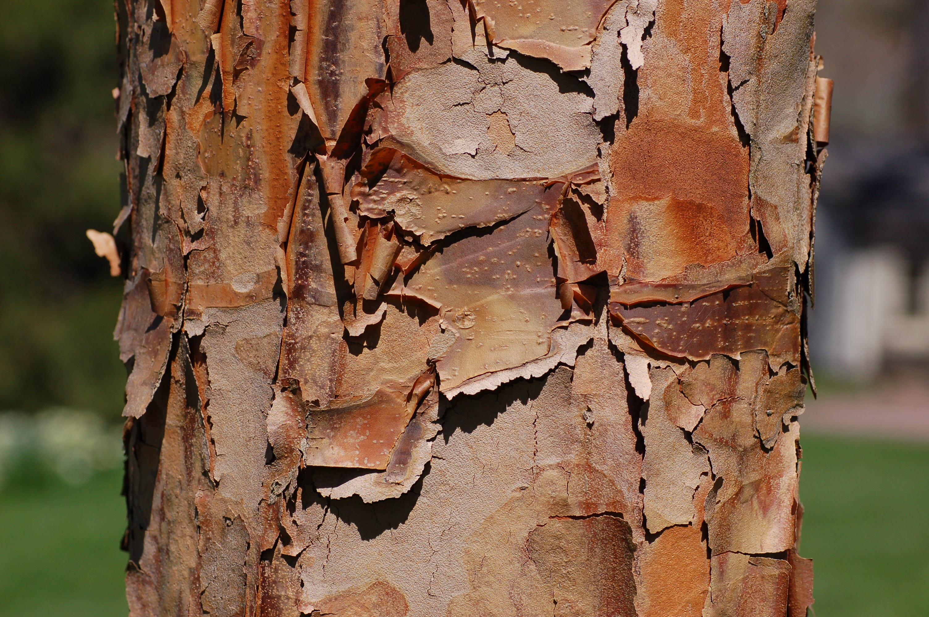 A picture of the bark on the trunk of the Paperbark Mapleen (Acer griseum en ) tree. Photo taken at the Chanticleer Garden where it was identified.